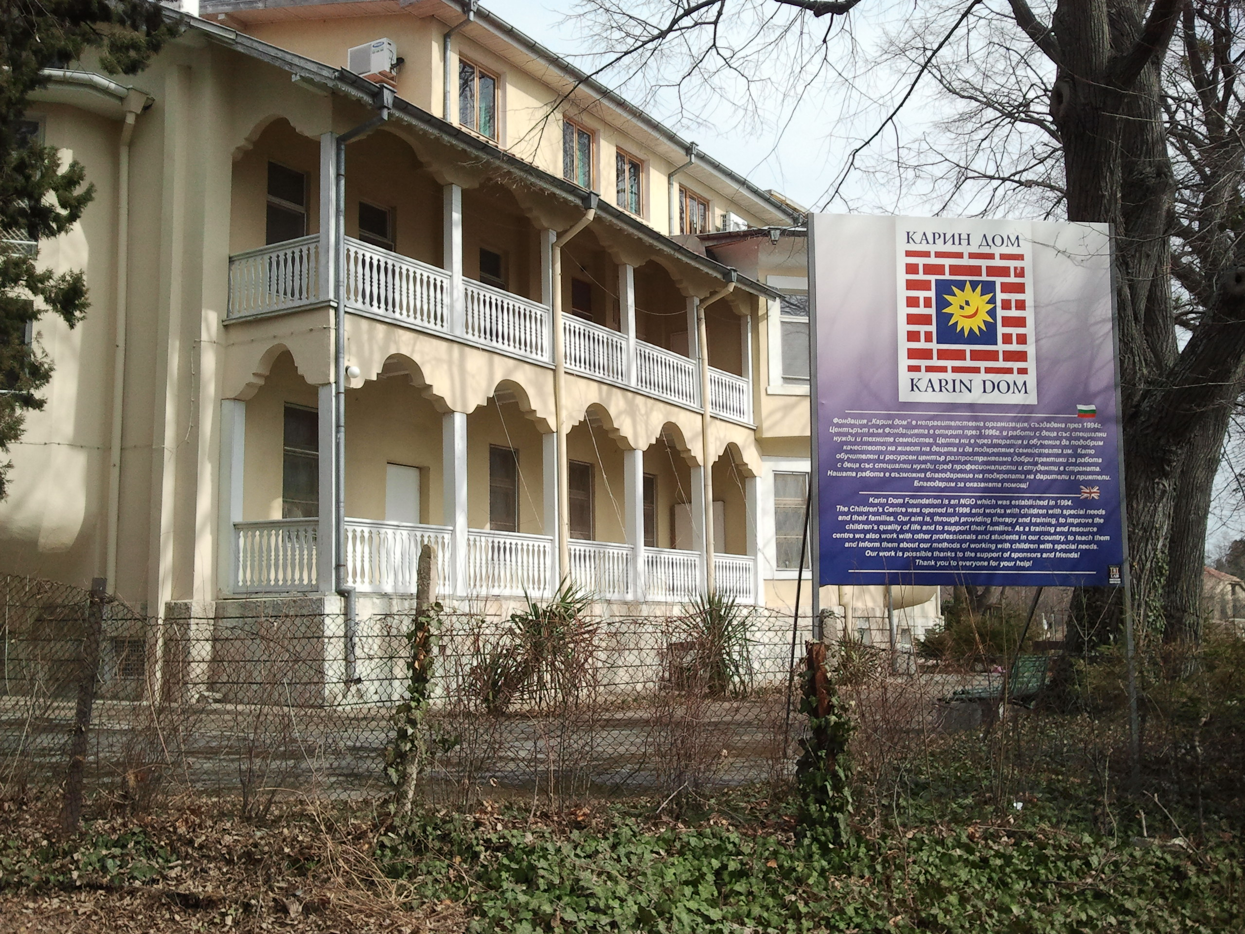 Karin Dom Foundation, Varna, Bulgaria